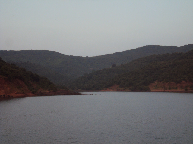 dam in sakharpa